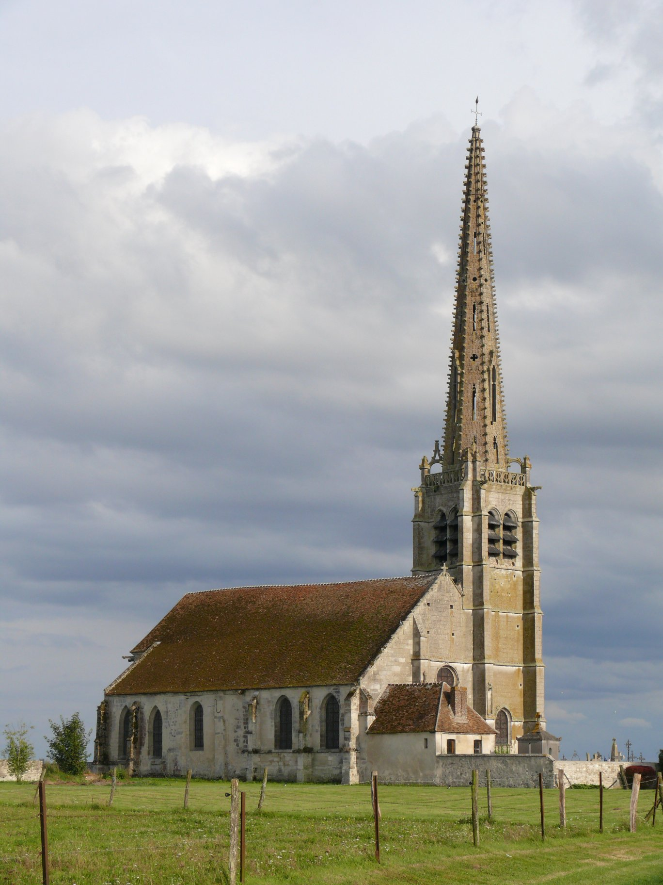 Sainte-Felicite's church of Montagny-Sainte-Félicité (Oise, Picardie, France).